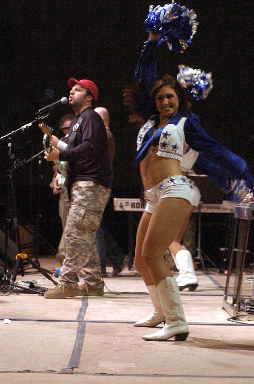 Dallas Cowboy Cheerleader Laura Becke provides backup dancing while Mark Wills performs for Coalition forces during a recent performance at Contingency Operating Base, Speicher, Iraq, Dec. 17th 2006. Wills and Becke were in Iraq touring with the USO during the holidays. U.S. Army Photo by Sgt. 1st. Class Robert Brogan (Released)